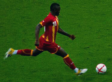 Photo taken by Cedric Ramirez with a Nikon D3000 camera. Sulley Muntari; a professional footballer, dribbling with the ball, playing for Ghana national football team against the England national football team.